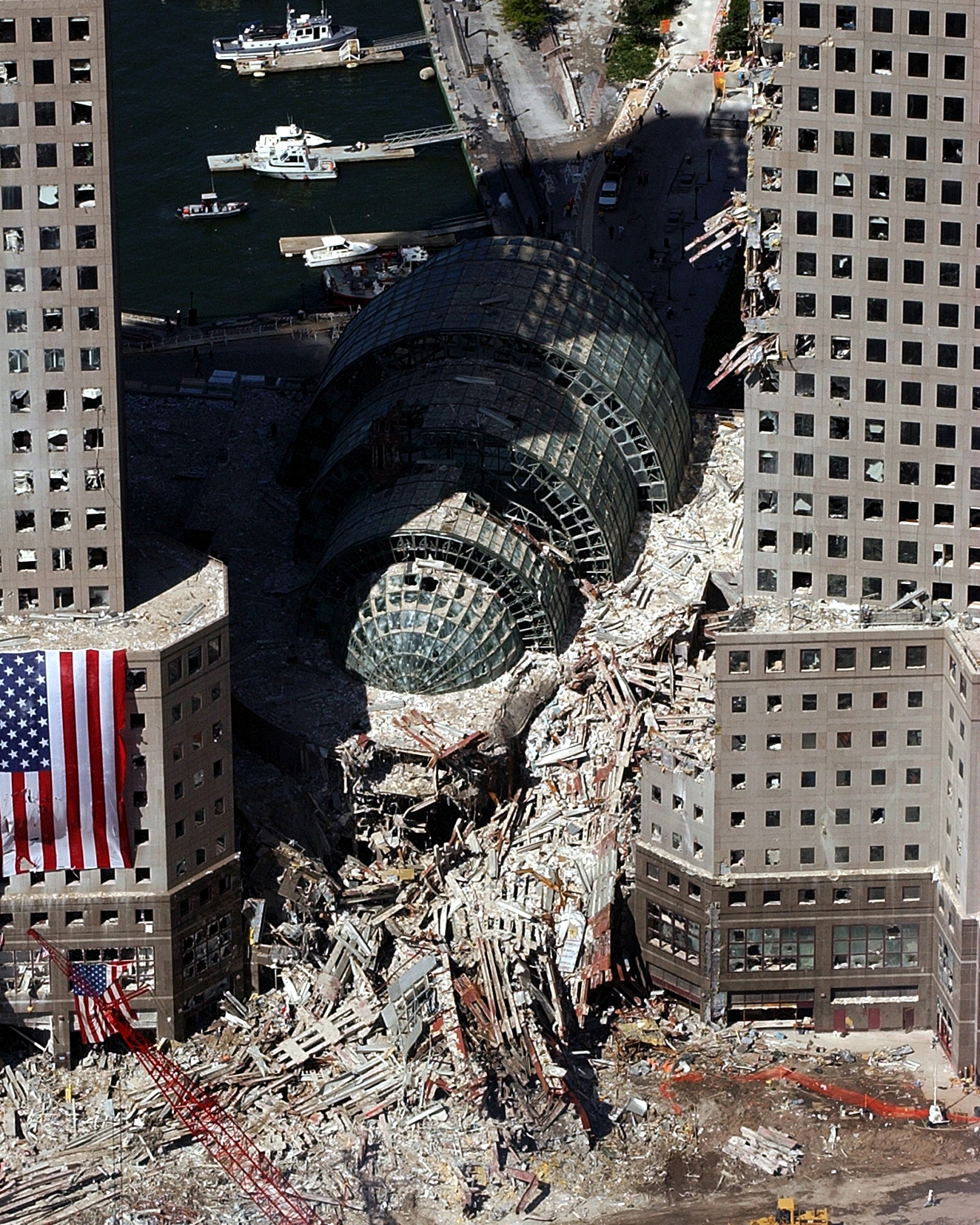 Ground Zero, New York City, N.Y. (Sept. 17, 2001) -- An aerial view shows only a small portion of the crime scene where the World Trade Center collapsed following the Sept. 11 terrorist attack. Surrounding buildings were heavily damaged by the debris and massive force of the falling twin towers. Clean-up efforts continued for months.